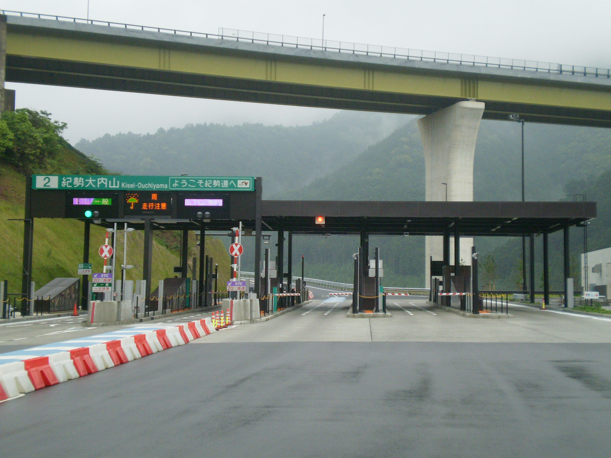 Kisei-Ouchiyama interchange of Kisei Expressway. I took this image at Saki Taiki-cho Watarai-gun Mie Pref., Japan.